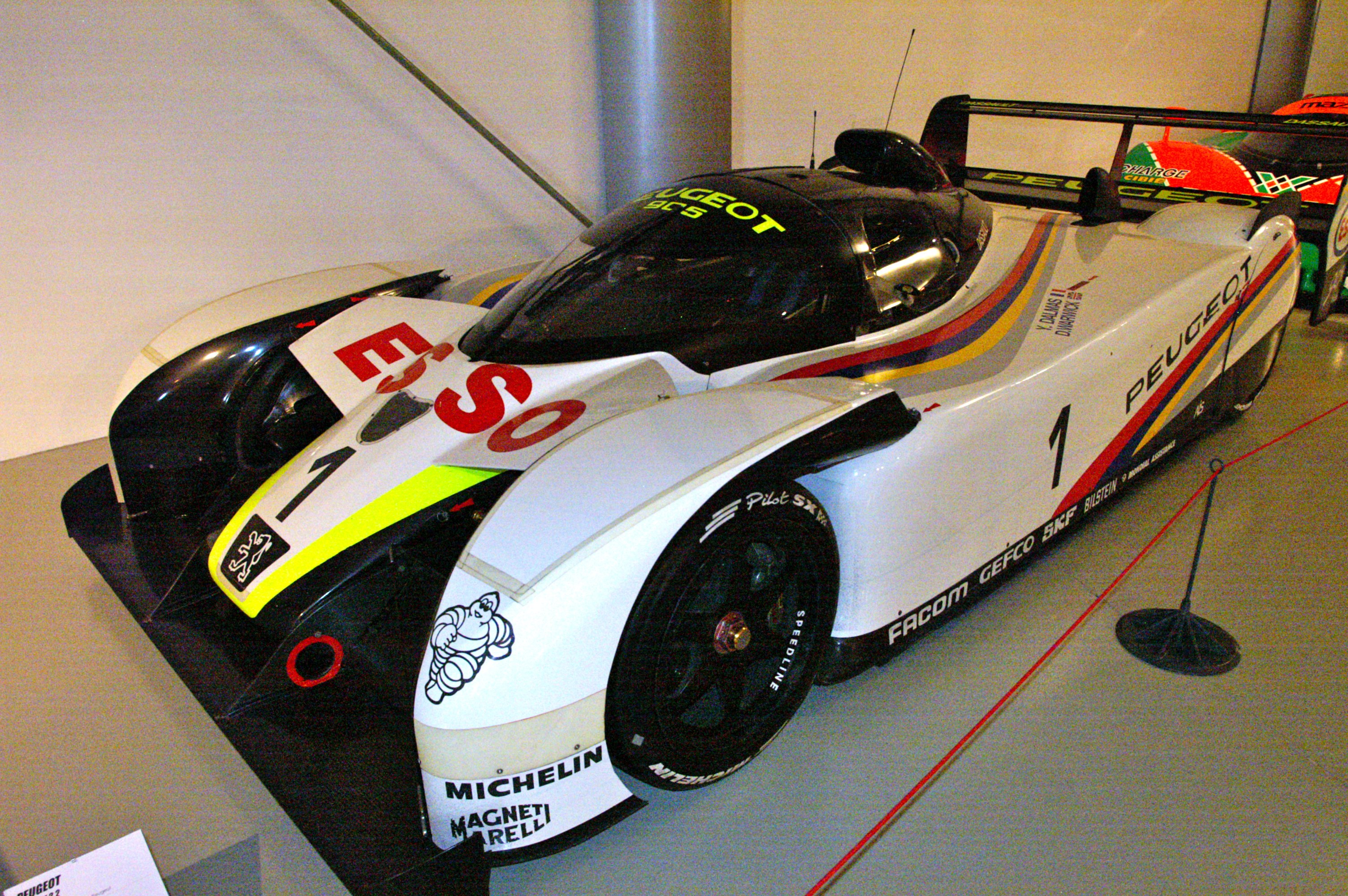 Peugeot 905 Evo2 at Le Mans Museum